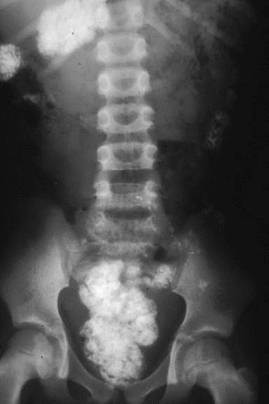 The practice of eating soil (called pica or geophagy*) is not uncommon amongst children and pregnant women. The women do it on purpose. Obviously if you're going to eat soil you're going to eat whatever ova are in the soil and makes ascariasis a high probability. The soil particles show up as white on this plain Xray which is done with a "Barium meal": An X-ray technique where the patient swallows a metallic-based fluid (Barium is the metal) which shows up as white on an X-ray film. The radiologist can watch what happens as this fluid is swallowed and as it goes on down through the stomach and small intestine. Photo by Larry Hadley, South Africa See also here